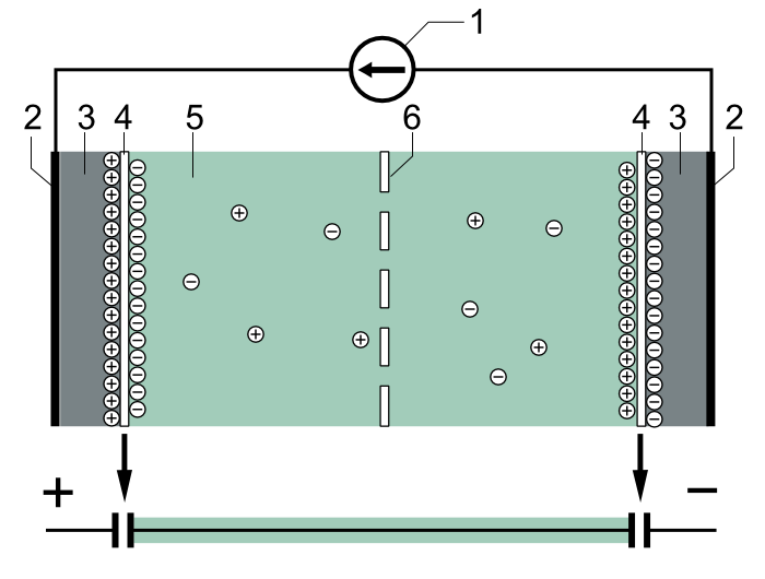 Electric double-layer capacitor model (#1) No Text 1.Charger（Current source） 2.Collector 3.Polarization electrode 4.Electric double-layer 5.Electrolytic solution 6.Separator